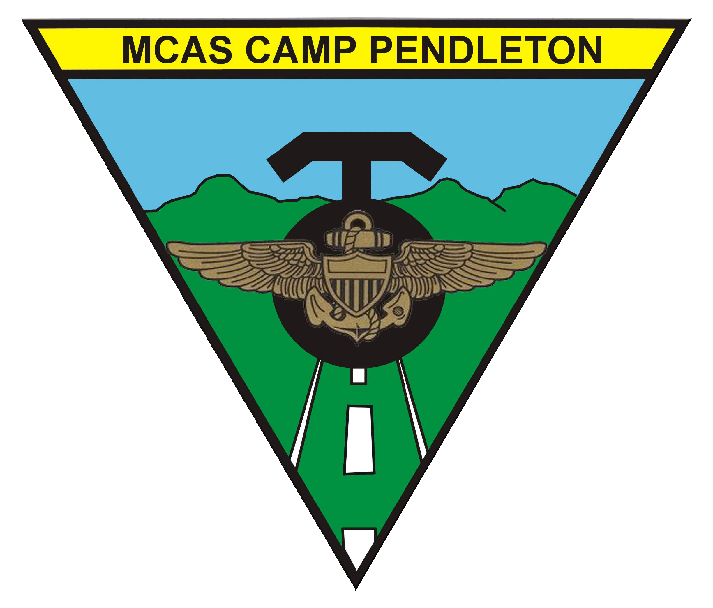 insignia for Marine Corps Air Station Camp Pendleton